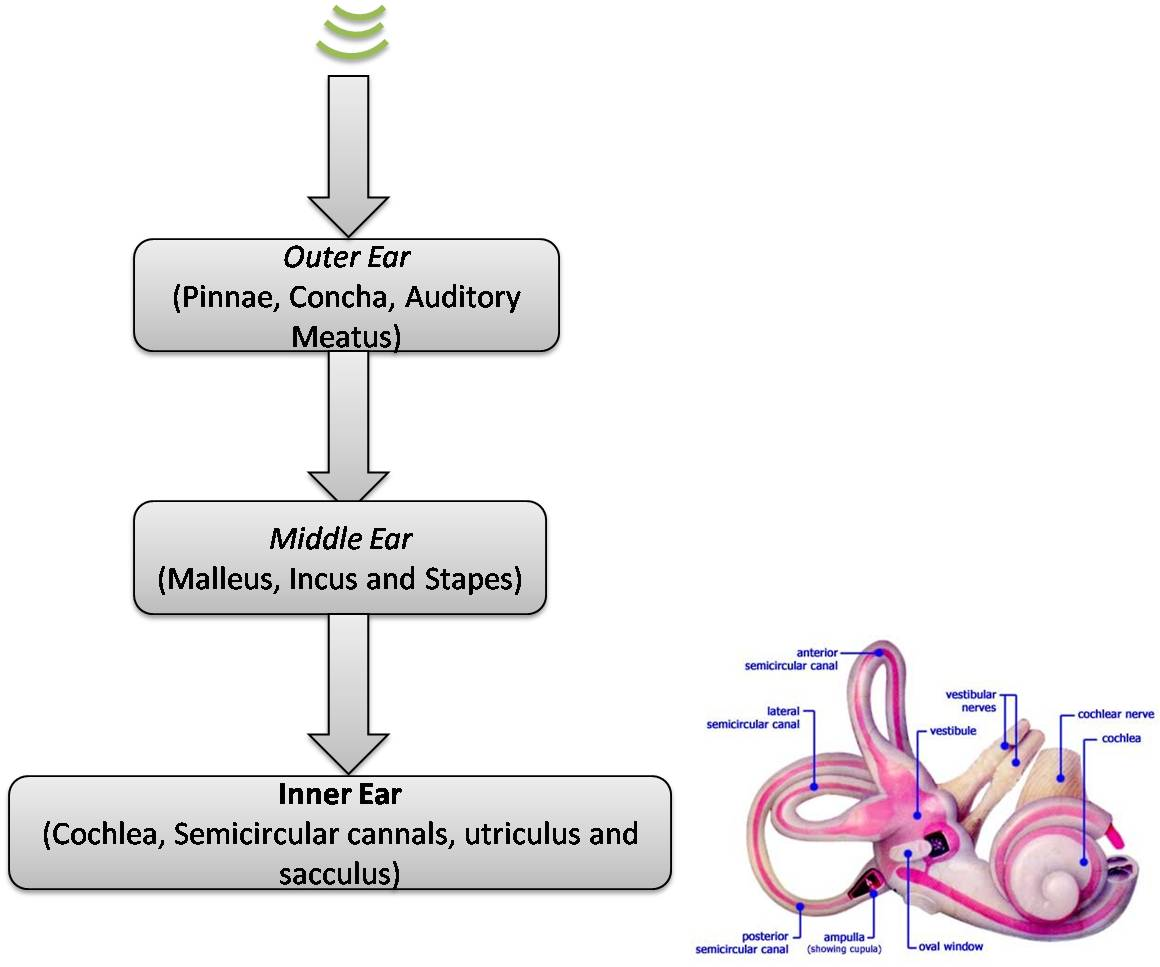 Flowchart of sound flow - inner ear